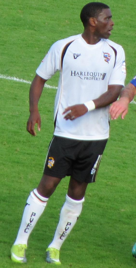 Justin Richards (footballer)